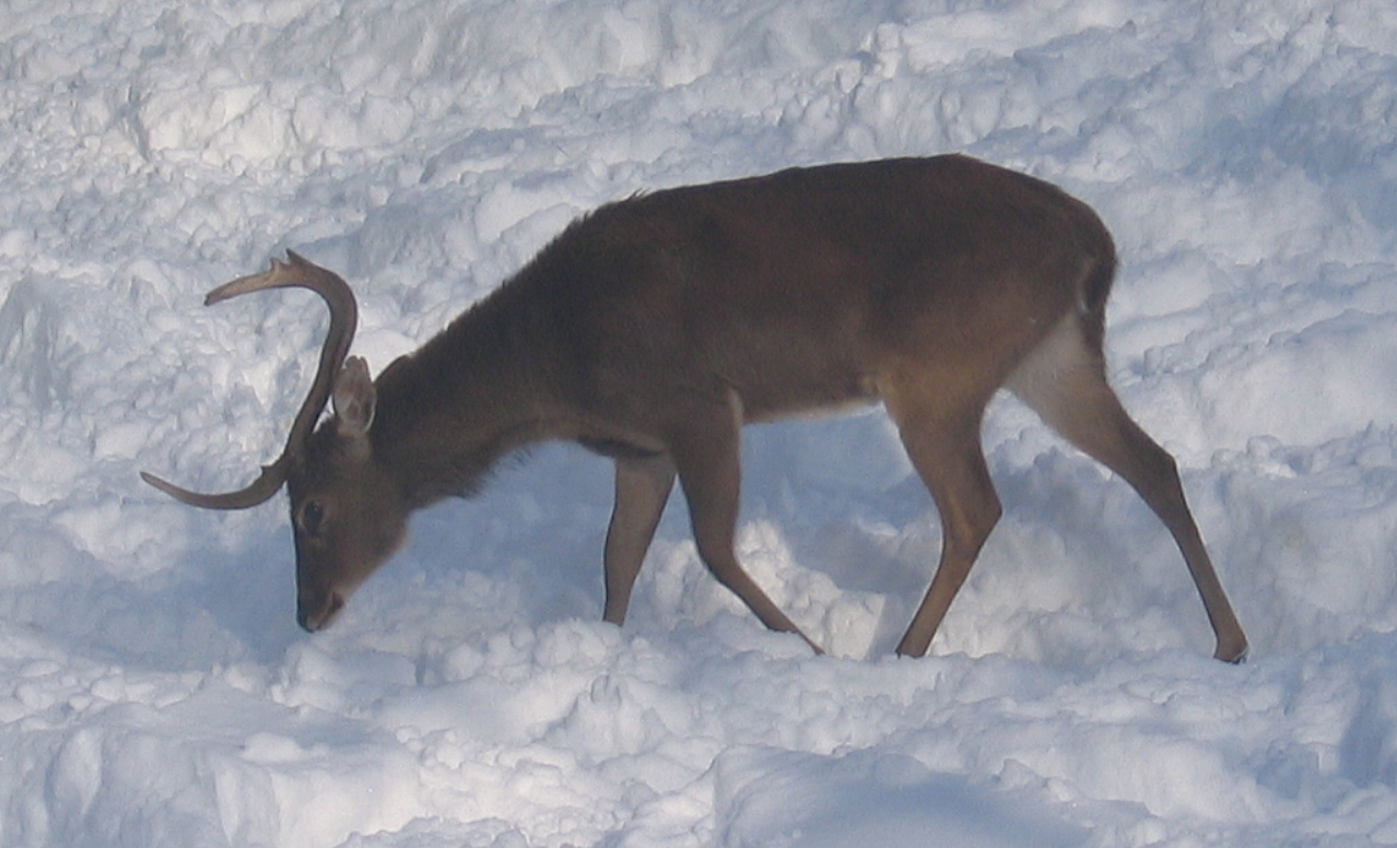 Thamin